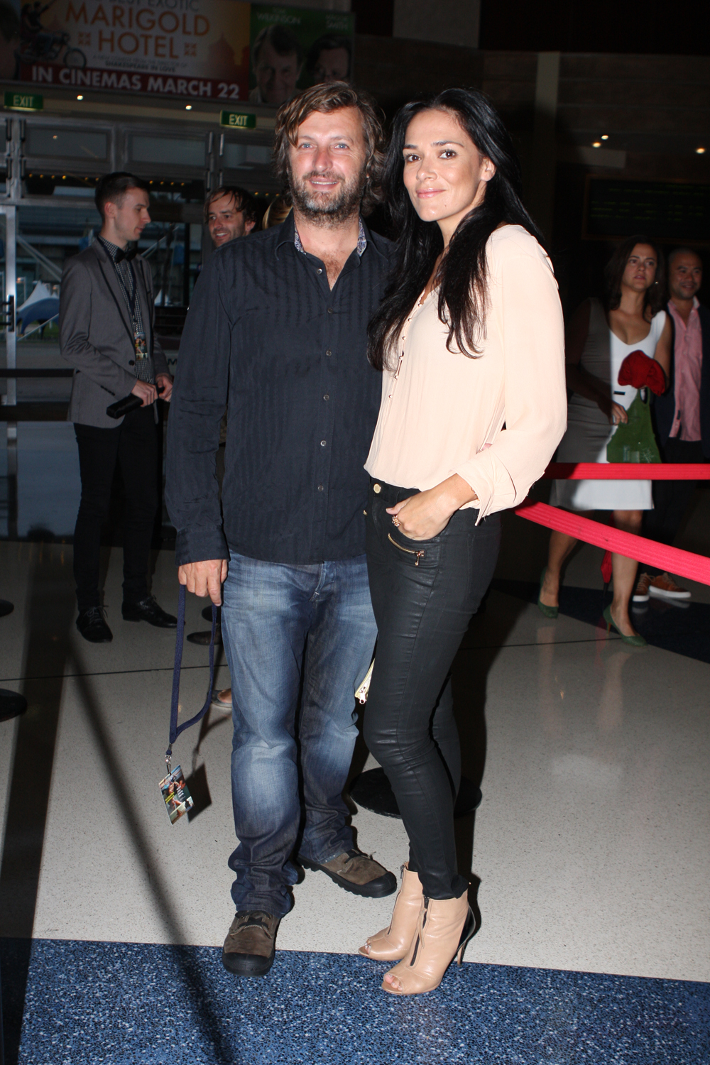 Gregor Jordan and Simone Kessell at Wish You Were Here Premiere at Entertainment Quarter Hoyts, Moore Park, Sydney Cinema Release Date: 25 Apr 2012 Director: Kieran Darcy-Smith Featuring: Joel Edgerton, Teresa Palmer, Felicity Price, Antony Starr Producer: Angie Fielder Country of Origin: Australia Genre: Drama Official website: Wish You Were Here is a psychological drama/mystery starring Joel Edgerton, Felicity Price and Teresa Palmer. Four friends - husband and wife Dave and Alice, and Alice's sister Steph and her new boyfriend Jeremy - lose themselves in the fun of a carefree South East Asian holiday. However, only three return back to Australia. Dave and Alice come home to their young family desperate for answers about Jeremy's mysterious disappearance. When Steph, returns not long after, a brutal secret is revealed about the night her boyfriend went missing. But it is only the first of many. Who amongst them knows what happened on that fateful night when they were dancing under a full moon in Cambodia? Wish You Were Here is produced by Angie Fielder of the award-winning, independent Australian production company Aquarius Films, in association with the acclaimed indie director's collective Blue-Tongue Films (Animal Kingdom). Websites Wish You Were Here Hopscotch Films Hoyts The Entertainment Quarter Eva Rinaldi Photography Flickr Eva Rinaldi Photography